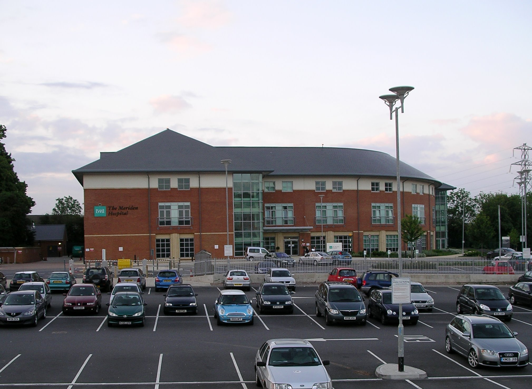 Photo of the BMI Meriden Hospital, which is a private hospital in the grounds of University Hospital Coventry, West Midlands, England.